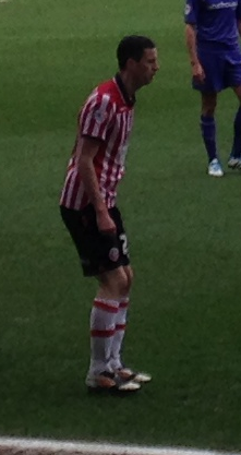 Jamie Murphy playing for Sheffield United against Wolves on 22 March 2014.